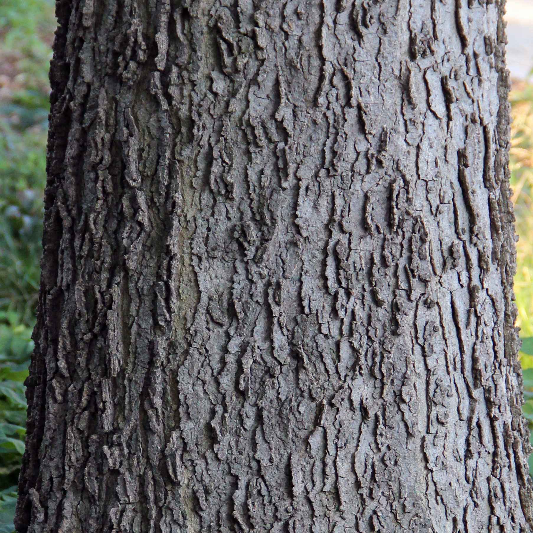 Close-up of hackberry bark.